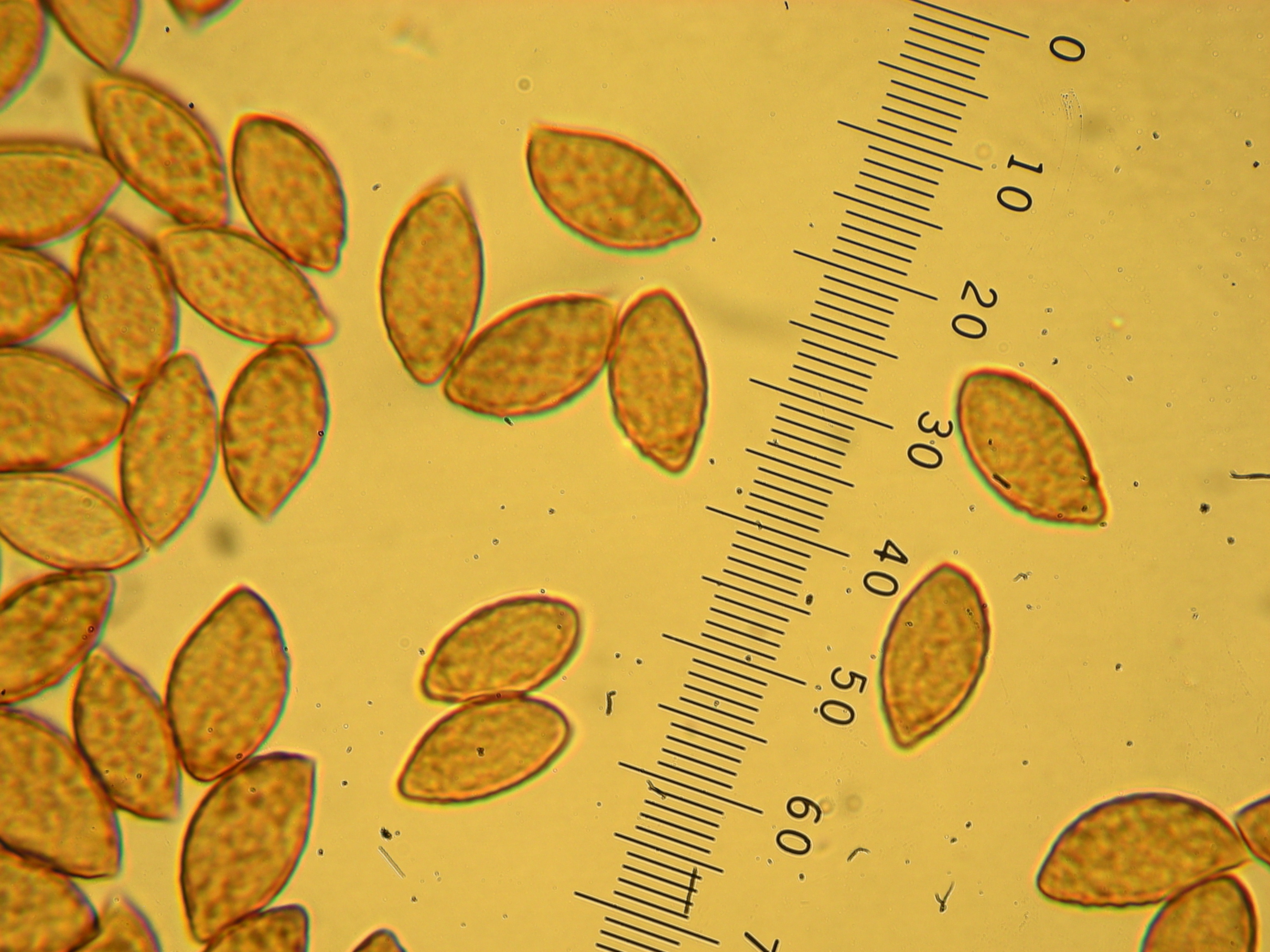 microscopic image of the spores of Cortinarius mucosus from Diamond and Crater Lake, Oregon, USA These were not extremely viscid but the conditions were a little dry. They seem to fit into the trivialis-collinitus-mucosus group. They had the straight stipe with bands on the lower part. The spores were large and perhaps even wider than what I see on MH. However they do fit into the range of either C. collinitus or C. mucosus. They were ~ 14.0-15.5 X 7.2-8.5 microns. Since they were growing in an area with mostly lodgepole pines @ ~ 5200ft, I’m guessing C. mucosus.